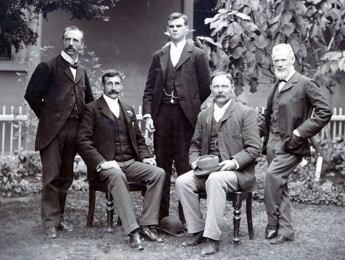 [On back of photograph] 'Calvert Scientific Exploring Expedition 1896-97. Left to right: A.T. Magarey, L.A. Wells, G.L. Jones, C.F. Wells and G.A. Keartland [General description] The group of men are posed for the photographer in a garden, two are seated, the others standing. Two of the men, Charles Wells and George Jones, died in the Western Australian desert whilst on this Expedition, trying to locate Joanna Spring which had been wrongly located on their map. Subjects: Magarey, A. T. (Alexander Thomas) 1849-1906 Keartland, George Arthur, 1848-1926 Wells, C. F. (Charles Frederick), 1849-1897 Jones, George Lindsay, 1878-1897 Wells, L. A. (Lawrence Allen), 1860-1938 Calvert Scientific Exploring Expedition (1896-1897) Explorers -- Australia